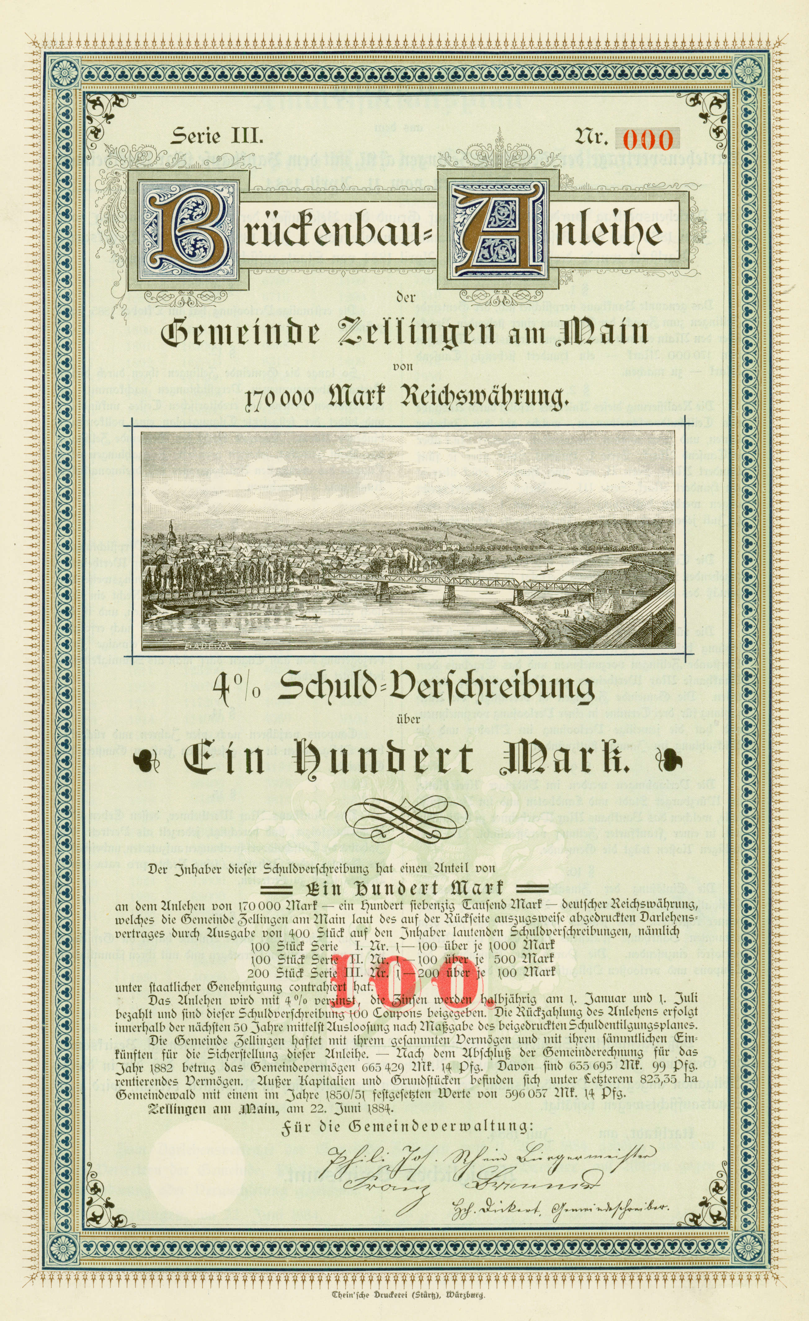 Bond of the Community of Zellingen from the 22. June 1884